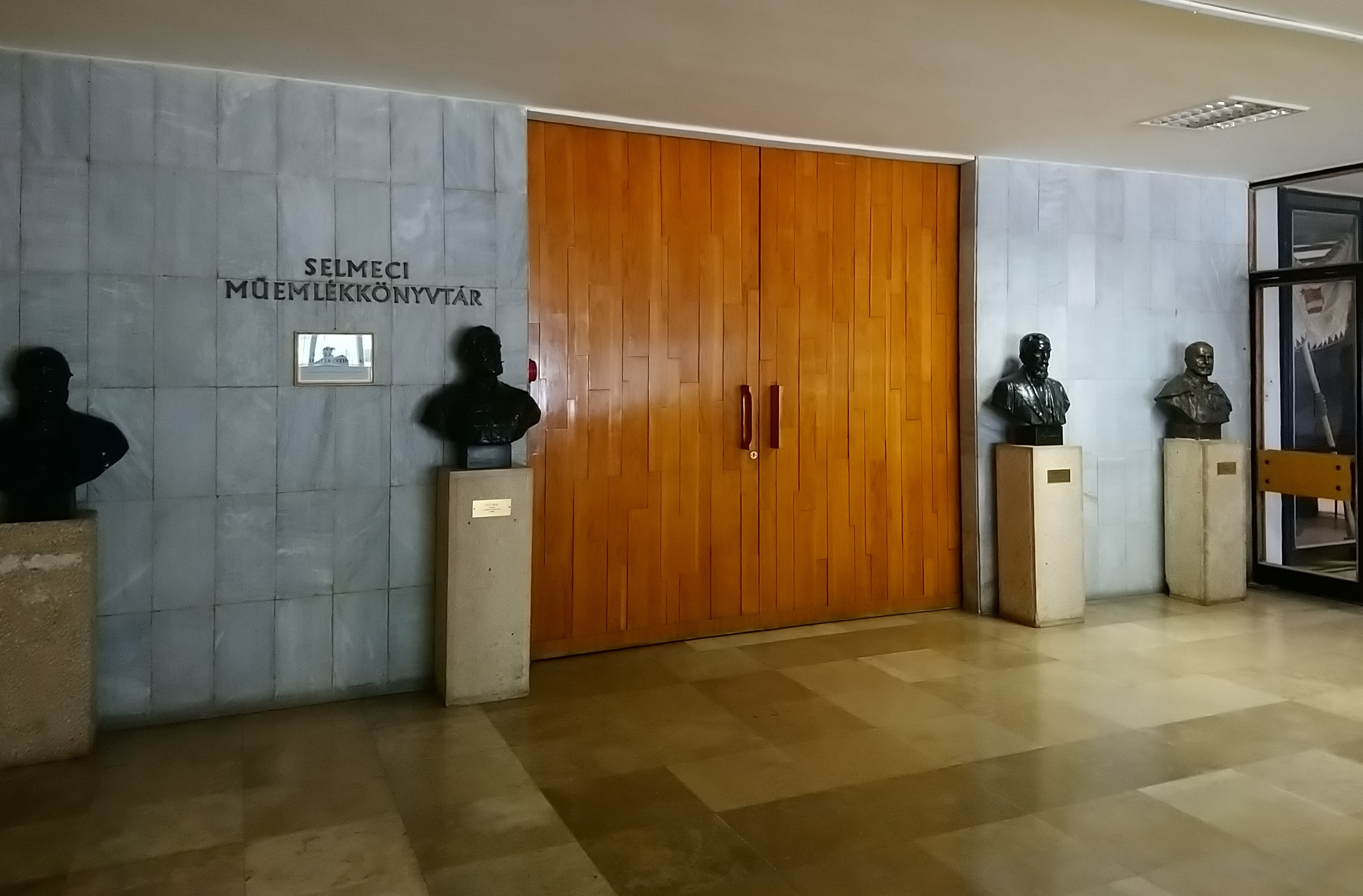 Selmec Museum Library Entrance, Library, Archives, Museum, University of Miskolc, Hungary